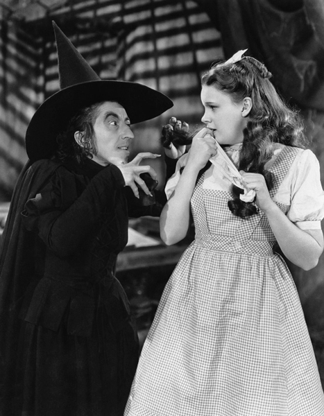 Publicity photo of American entertainers, Margaret Hamilton as the Wicked Witch of the West (left) and Judy Garland as Dorothy Gale (right) in the 1939 MGM feature film The Wizard of Oz.